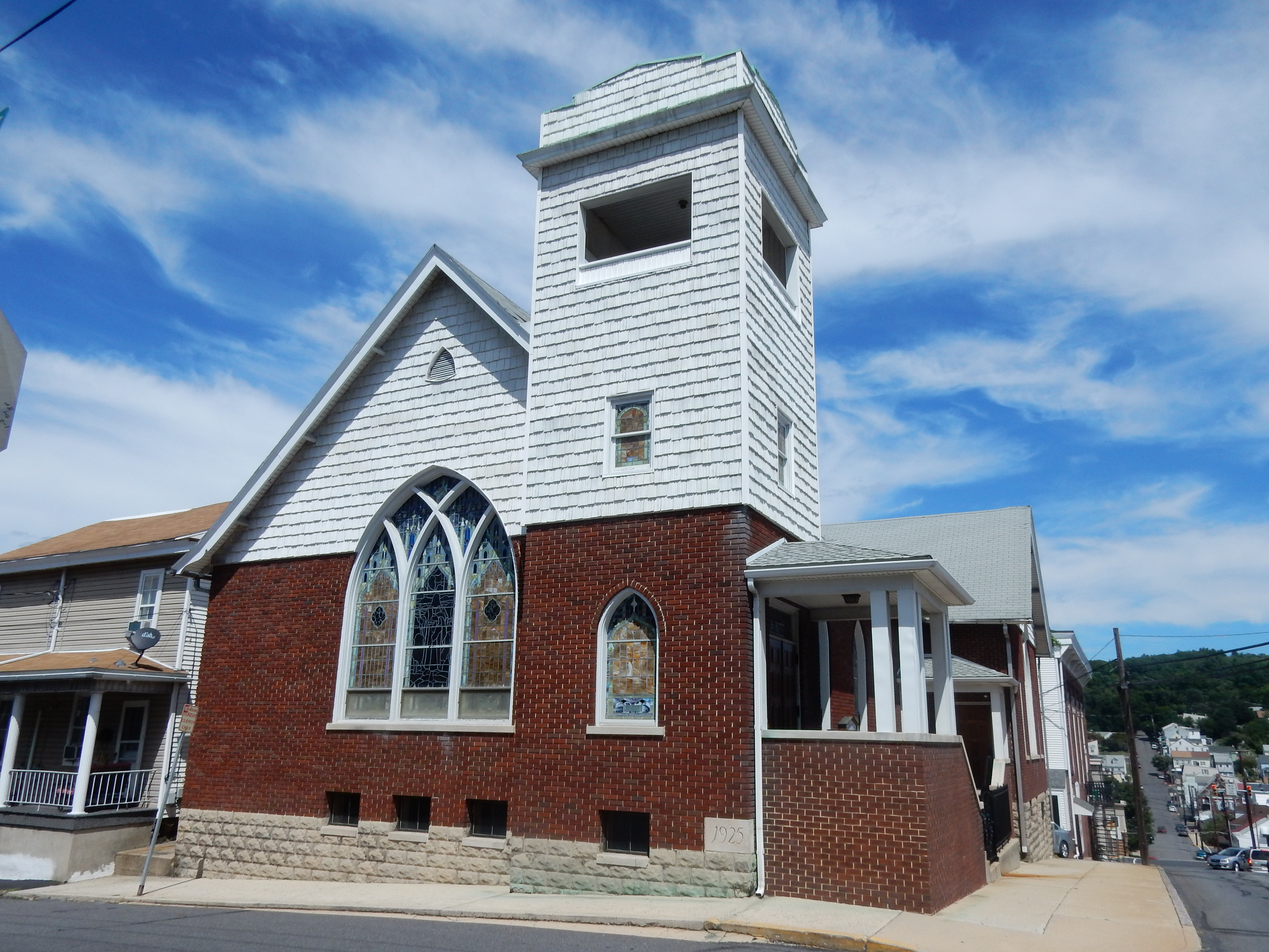 First English Baptist Church of Minersville, Schuylkill County, Pennsylvania. Corner of South and S. 3rd St. Built in 1865.